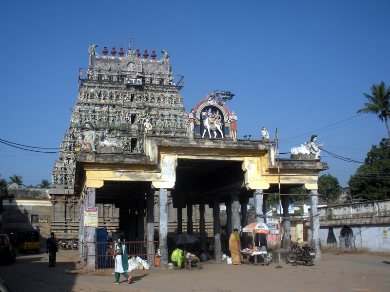 Pataleeswarar Temple, Cuddalore